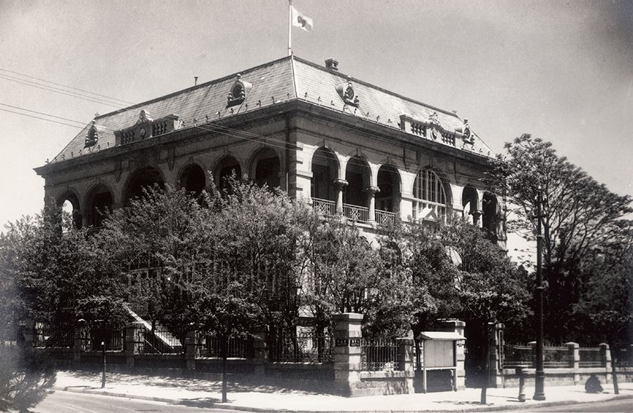 Japanese General Consulate of Tsingtao